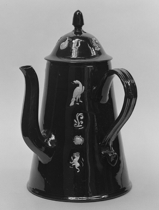 British, Staffordshire; Coffeepot; Ceramics-Pottery